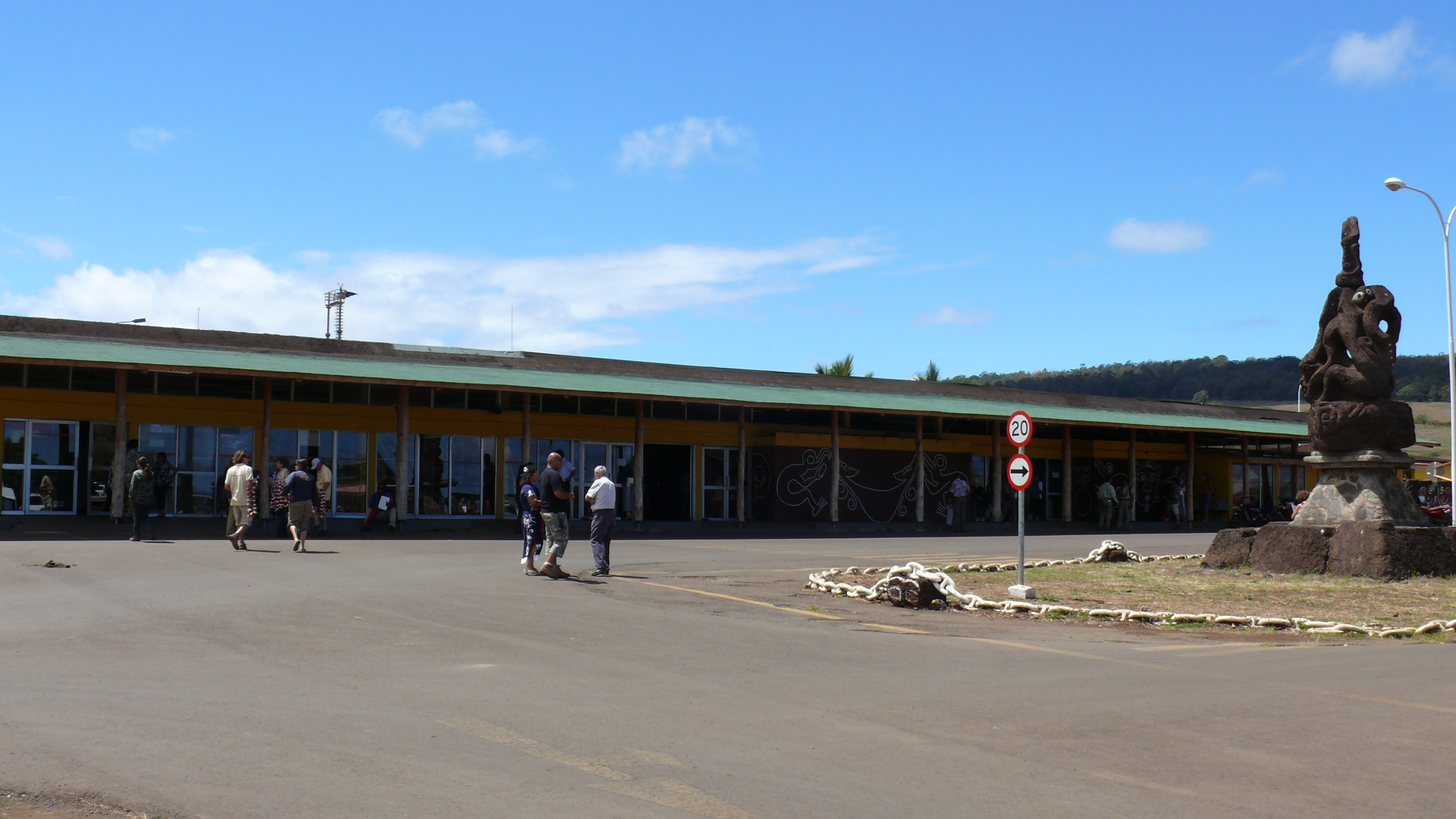 Mataveri airport pavilon